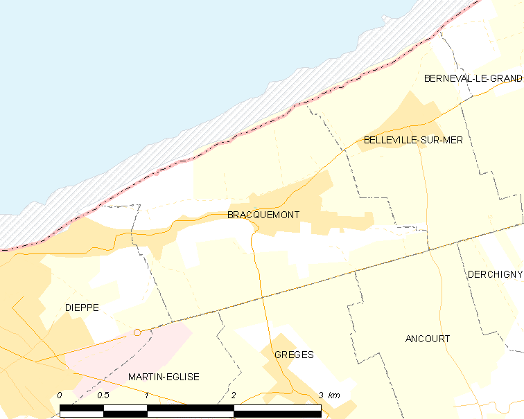 Map of French municipality Bracquemont